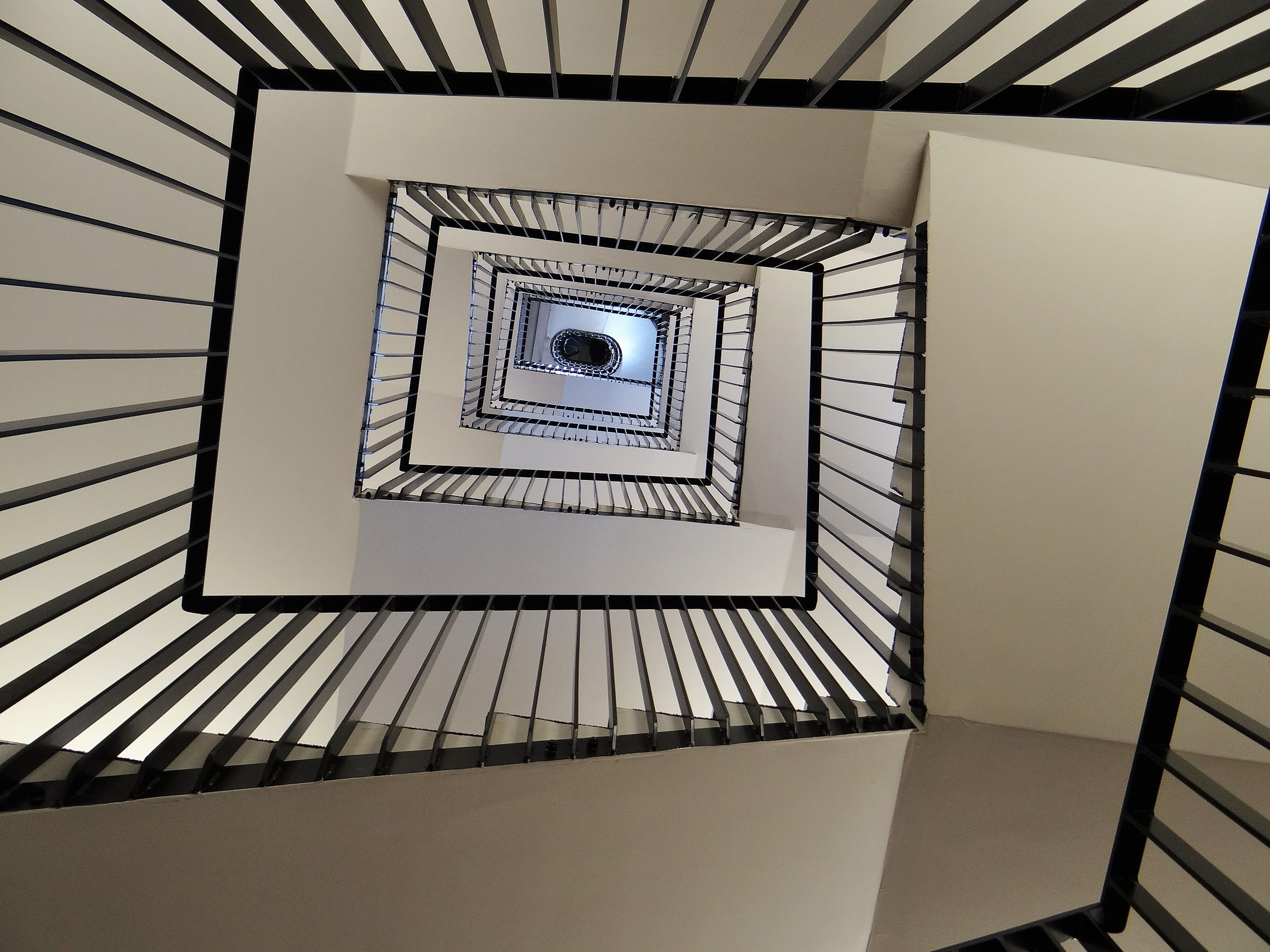 Belfry of the Montrouge town : stairs